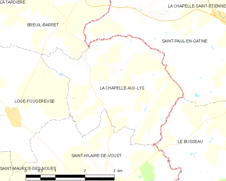 Map of French municipality La Chapelle-aux-Lys